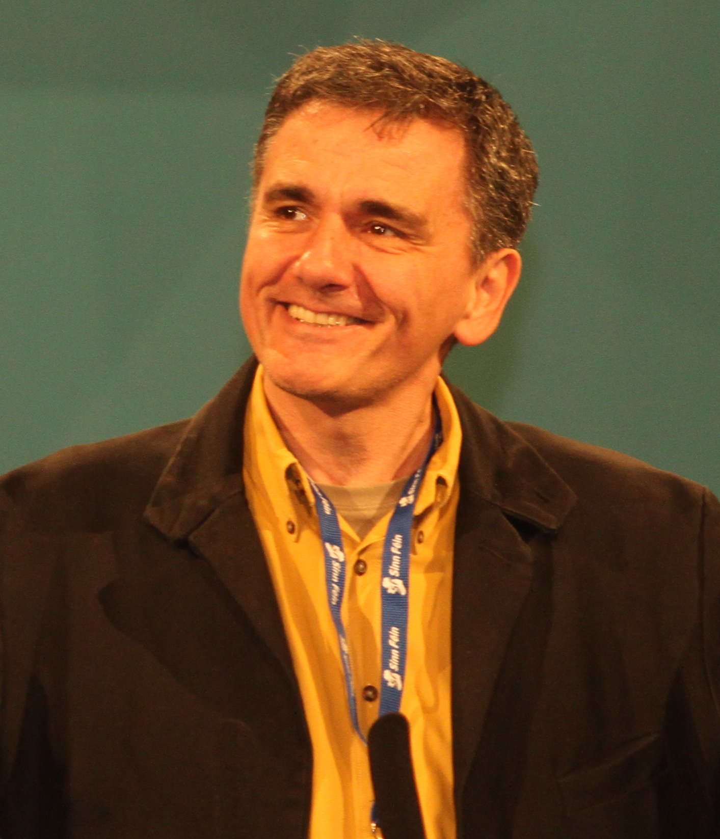 Euclid Tsakalotos